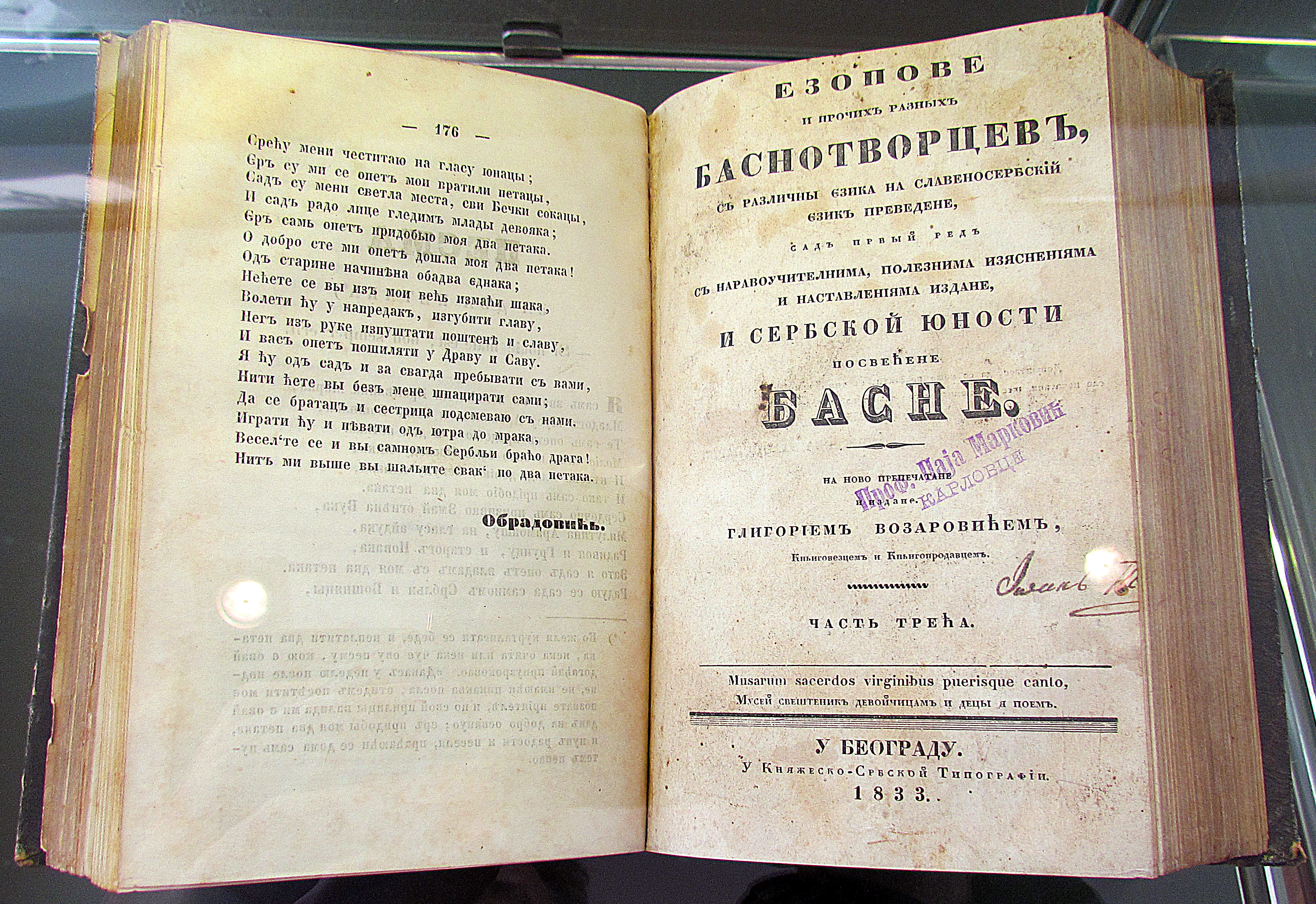 Gligorije Vozarević, Book of Fables